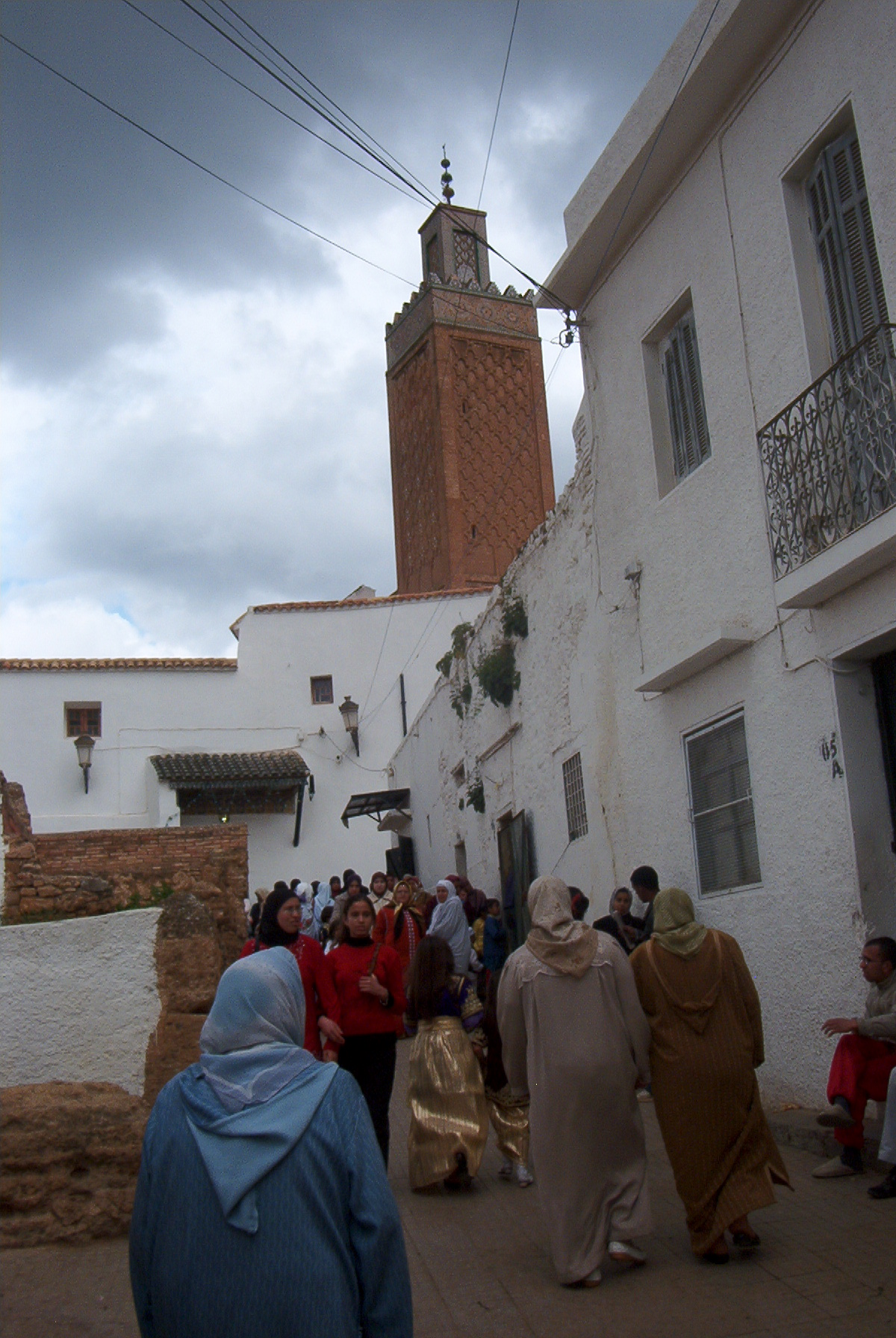 pilgrimage (visit) to the mausoleum of Sidi Boumediène